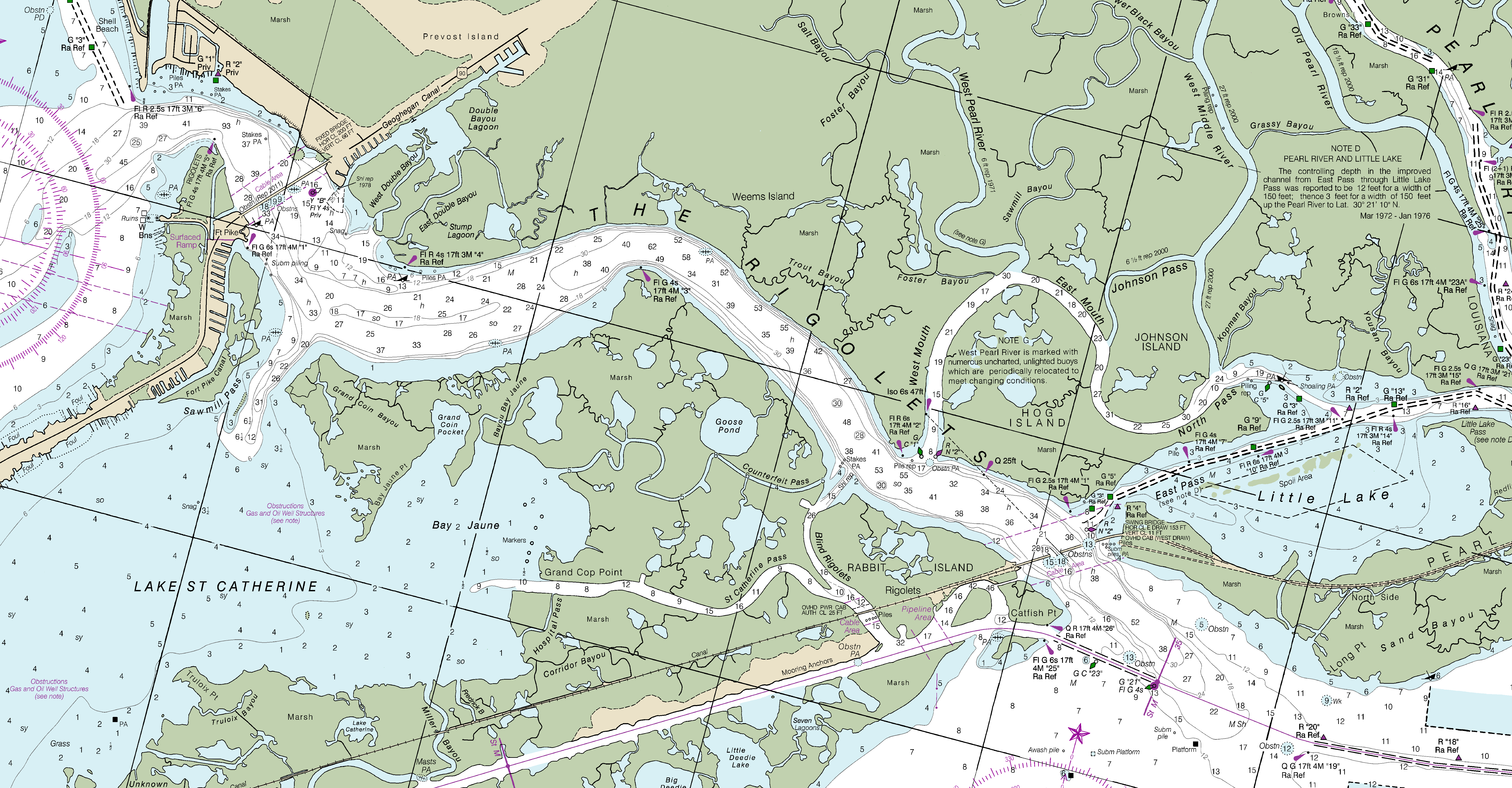 NOAA nautical chart of the The Rigolets in Louisiana, which is strait connecting Lake Pontchartrain and Lake St. Catherine to Lake Borgne and the Gulf of Mexico.